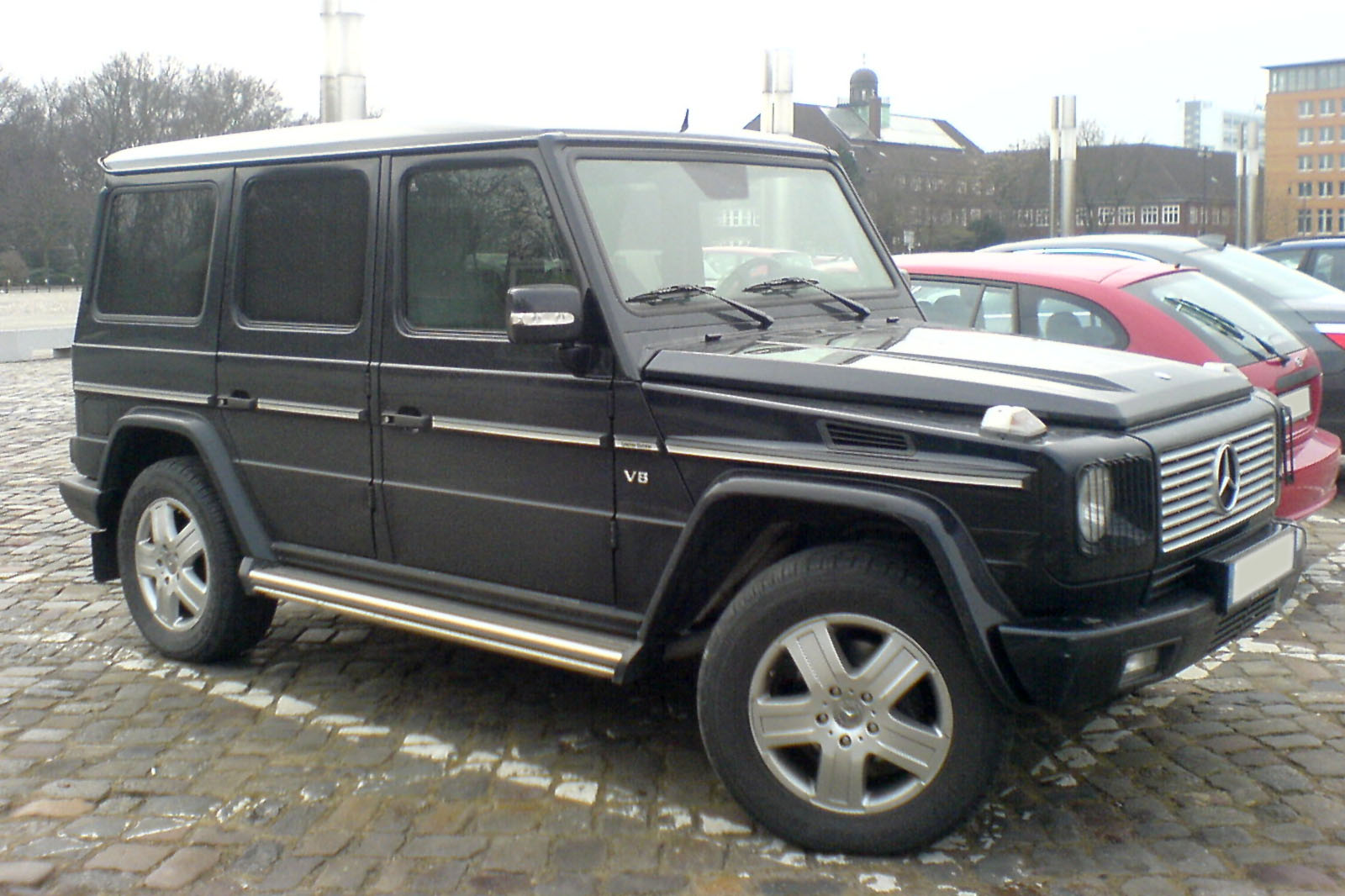 Mercedes-Benz G 400 CDI Limited Edition